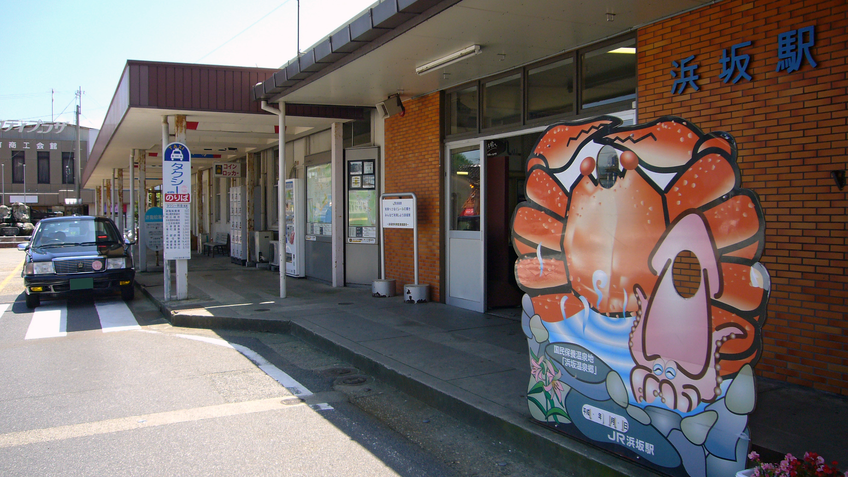 Hamasaka Station in Shinonsen, Hyogo prefecture, Japan